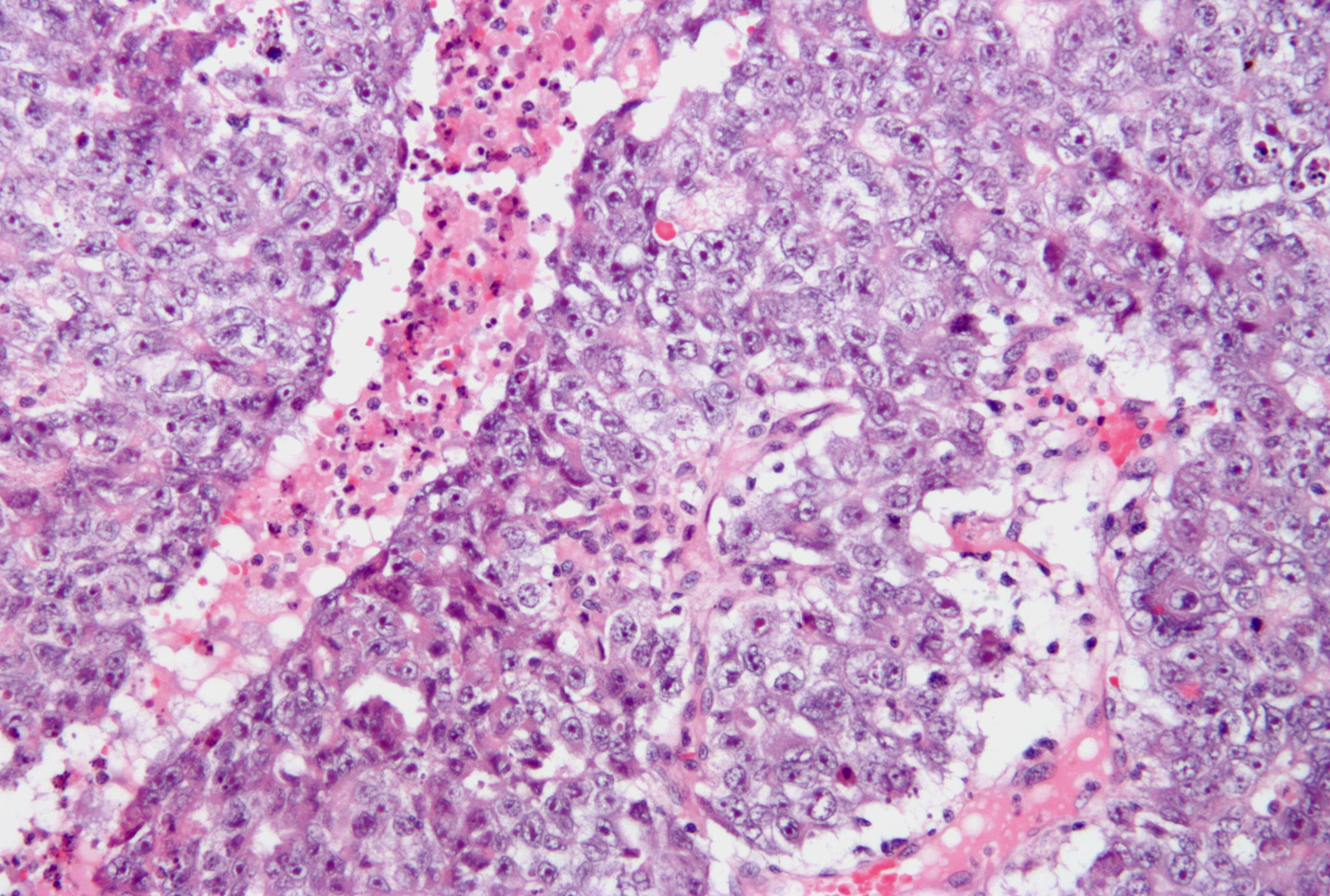 Intermediate magnification micrograph of an embryonal carcinoma, a type of germ cell tumour. H&E stain. Features: Cell borders indistinct. Mitoses common. Variable architecture: Tubulopapillary, Glandular, Solid, Embryoid bodies - ball of cells in surrounded by empty space on three sides. Nuclei overlap. +/- Necrosis. Related images Low mag. Intermed. mag. High mag. Additional images: High mag. Very high mag. Very high mag. (cropped)